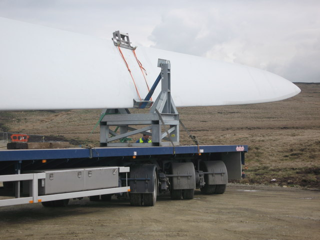 Turbine Blade Delivery to Tower No 11. Due to the narrow roads and tight turns on Scout Moor all the trailers delivering the 40 metre blades have rear steering controlled by a steersman walking at the rear of the trailer. 787682 696917 633643 696917 687214 777641 Turbine details: Tower Height: 60m Blade Length: 40m Total Max Height: 100m Manufacturer: Nordex Model: N80